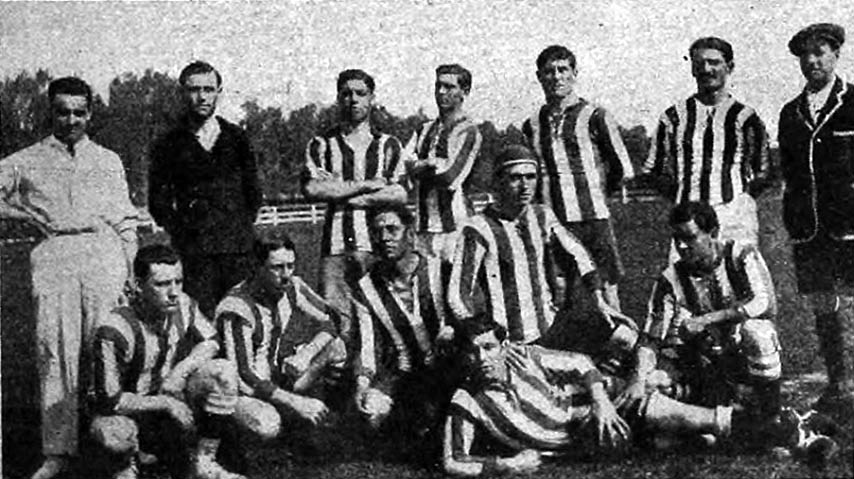 Team of Tiro Federal that beat Boca Juniors 4-0 at the Copa de Honor MCBA semifinals.